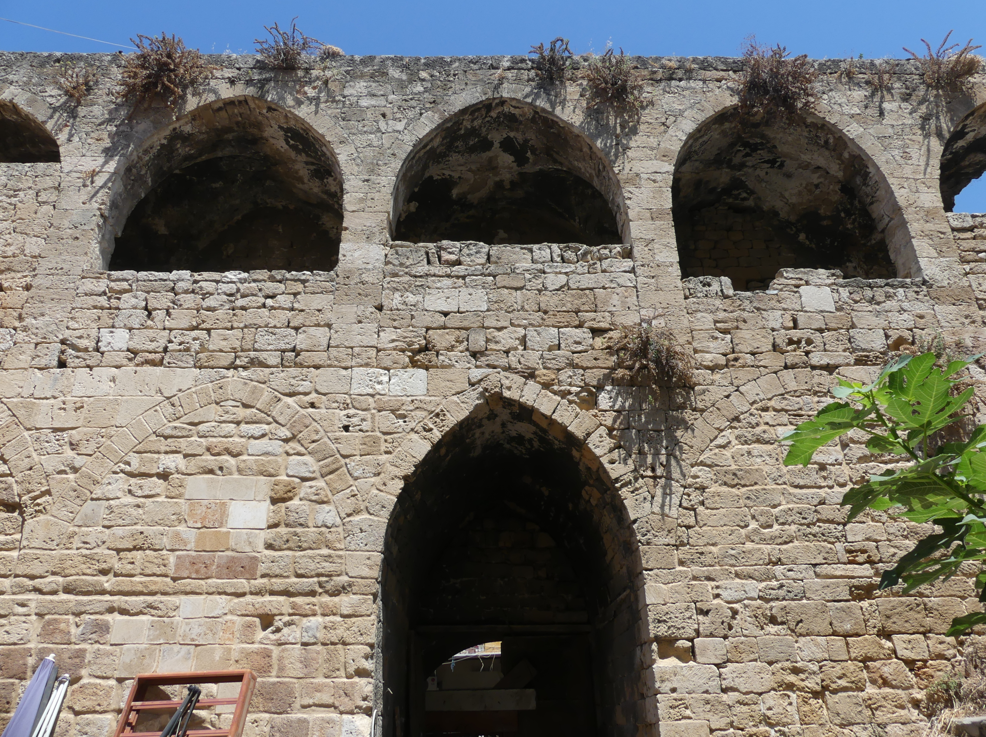 The front part of the 16th century building Khan Sour in Tyre/Sour, Southern Lebanon, seen from the inner courtyard. It was constructed as the residence Ottoman Emir Younes Al-Maani and "subsequently became the property of the Franciscan fathers." The building was later used as a garrison and transformed into a Khan, "traditionally a large rectangular courtyard with a central fountain, surrounded by covered galleries". French troops used the building during both World Wars as a base. In 1982, its second storey was heavily damaged by Israeli bombardment. The ruins are still standing though in the centre of today's Souk marketplace area and are also known as Khan Al-Ashkar.